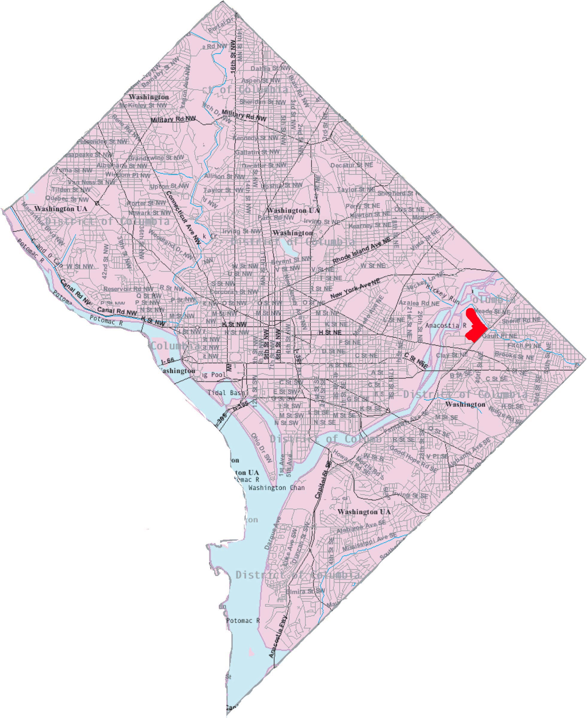 This image is a modified version of a self-generated reference map from the U.S. Census Bureau's American Factfinder at by Wikipedia user Msclguru.